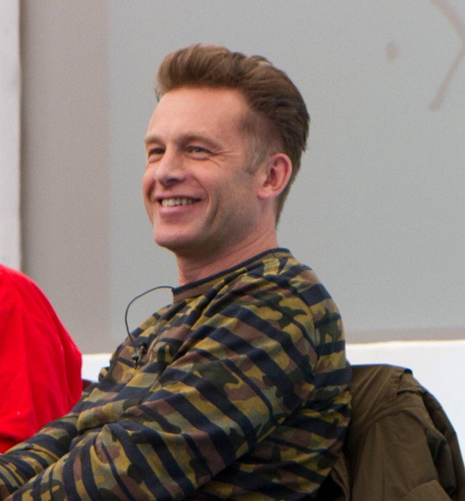 Chris Packham